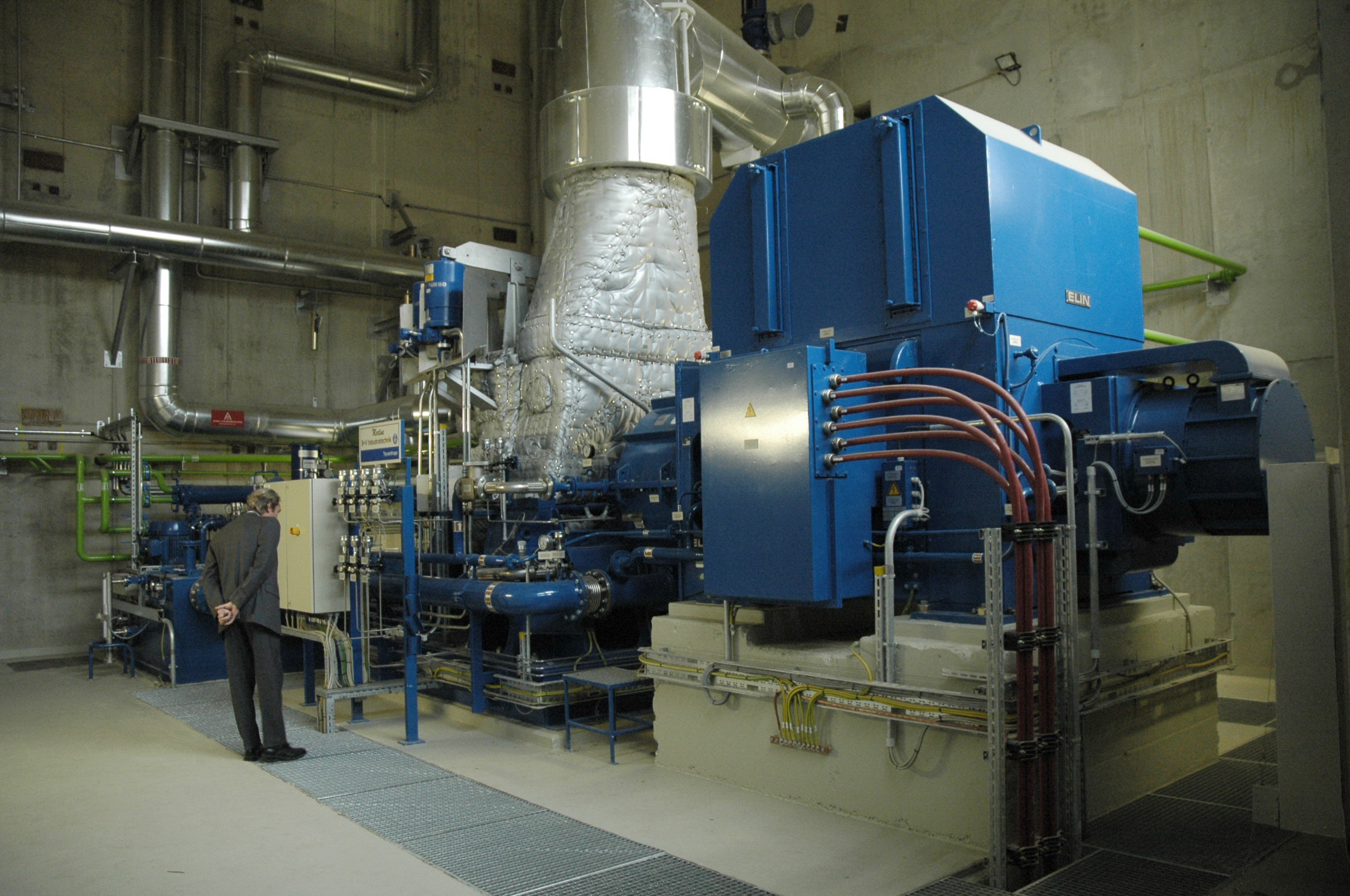 Steam turbine with an electrical power of 5 MW, manufactured by the Blohm und Voss company.